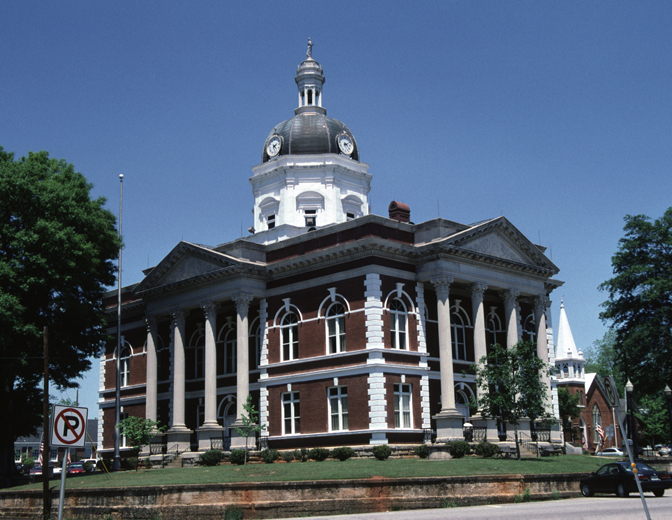 Meriwether County courthouse in Greenville, Georgia, United States